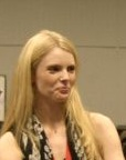 Nathalie Cox with Adrienne Wilkinson chatting to fans